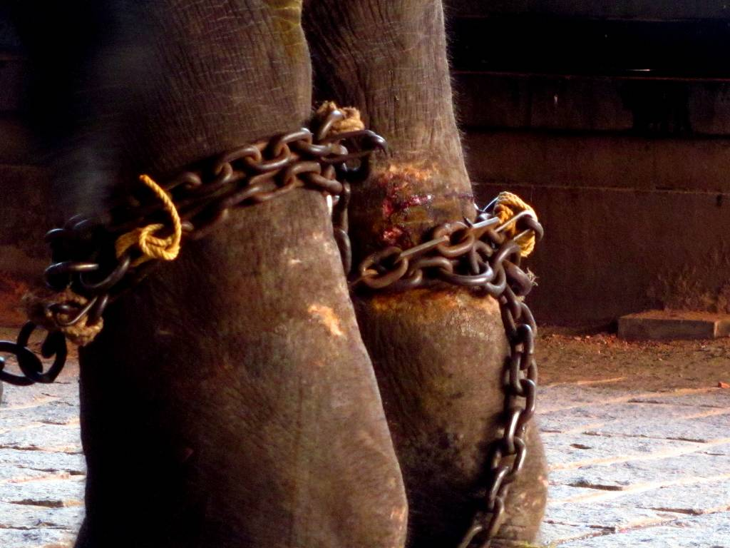 Elephant mistreat in Kerala